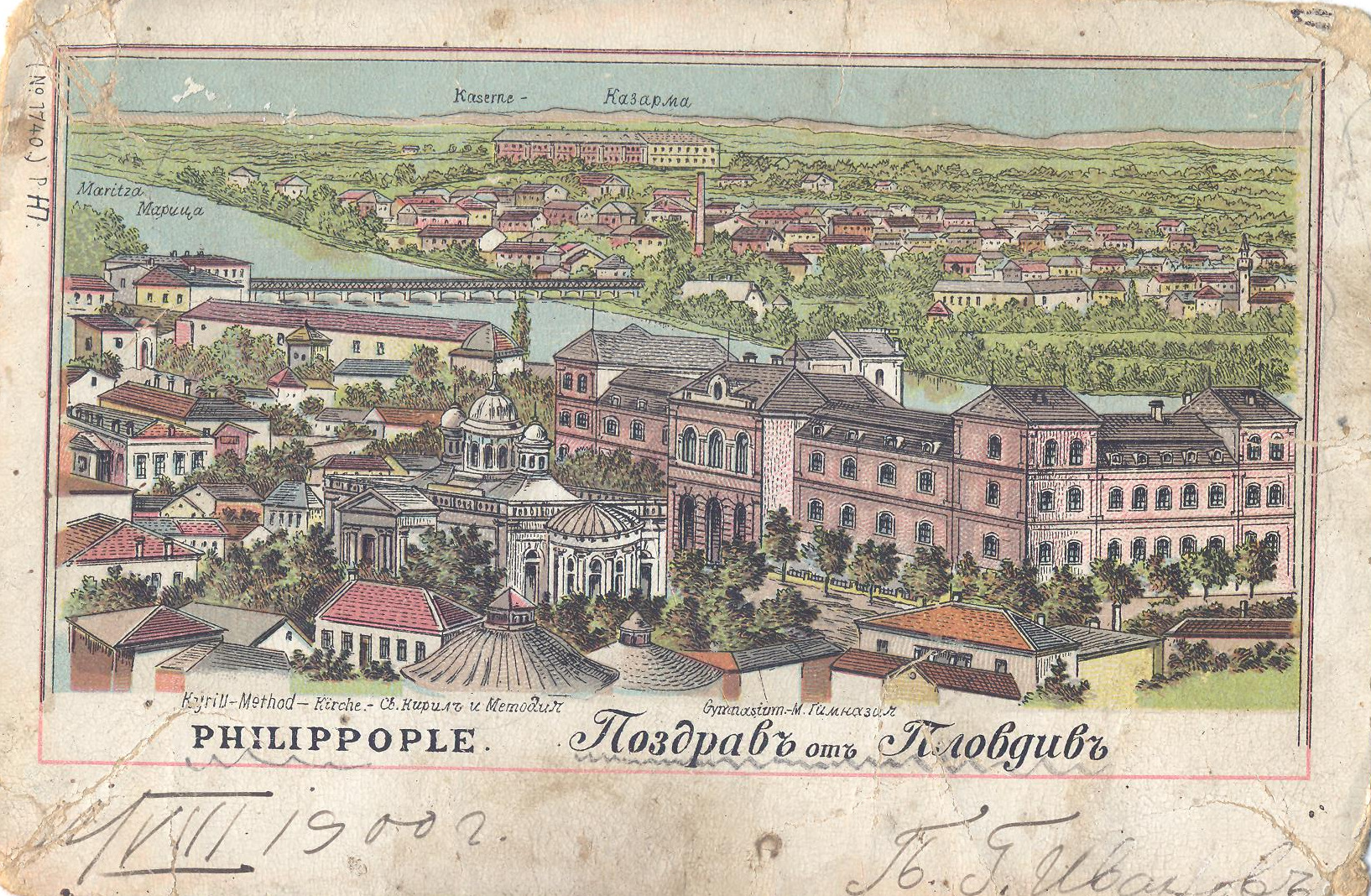 Postcard from Plovdiv, Bulgaria with Plovdiv Men's High School and "St. Cyril and Methodius and St. Alexander Nevsky Church" in Marasha district